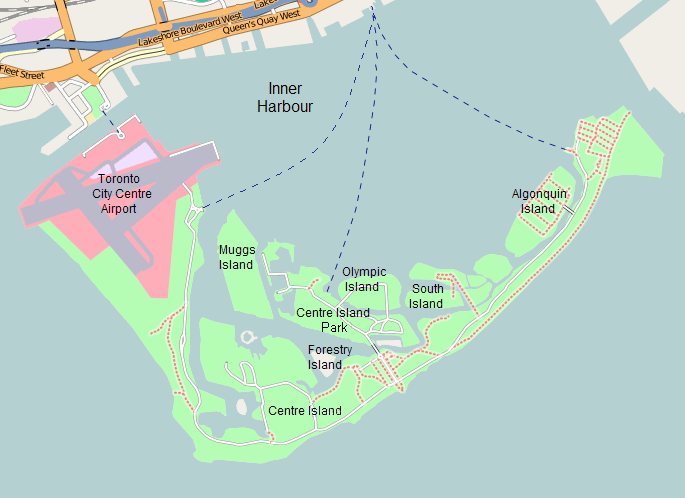 Labelled map of the Toronto Islands.